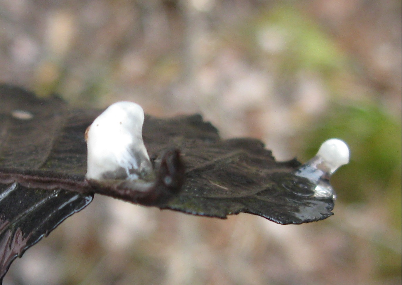 Ambystoma sp. spermatophores from a vernal pool in Vermont